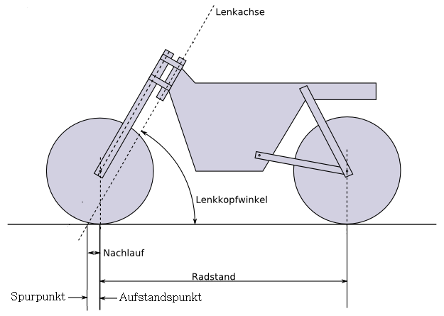 steering geometry